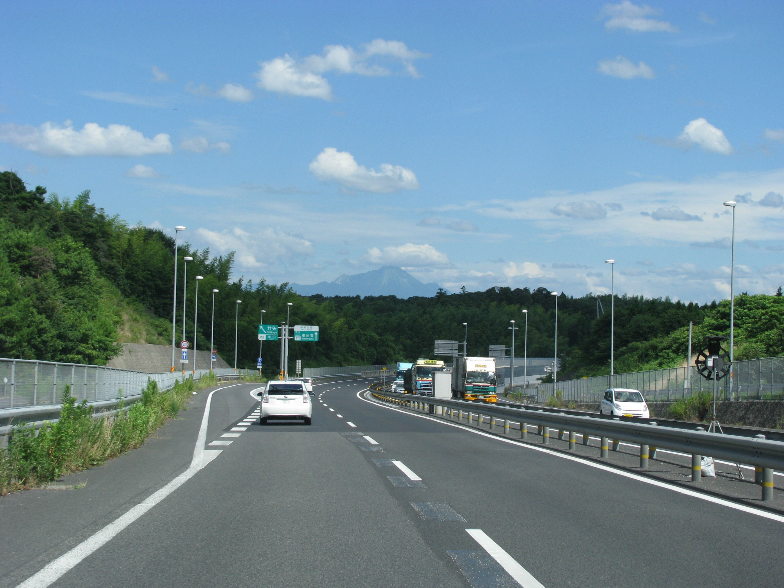 Chikuya Interchange on the Sanin Expressway in Matsue City, Shimane Prefecture, Japan